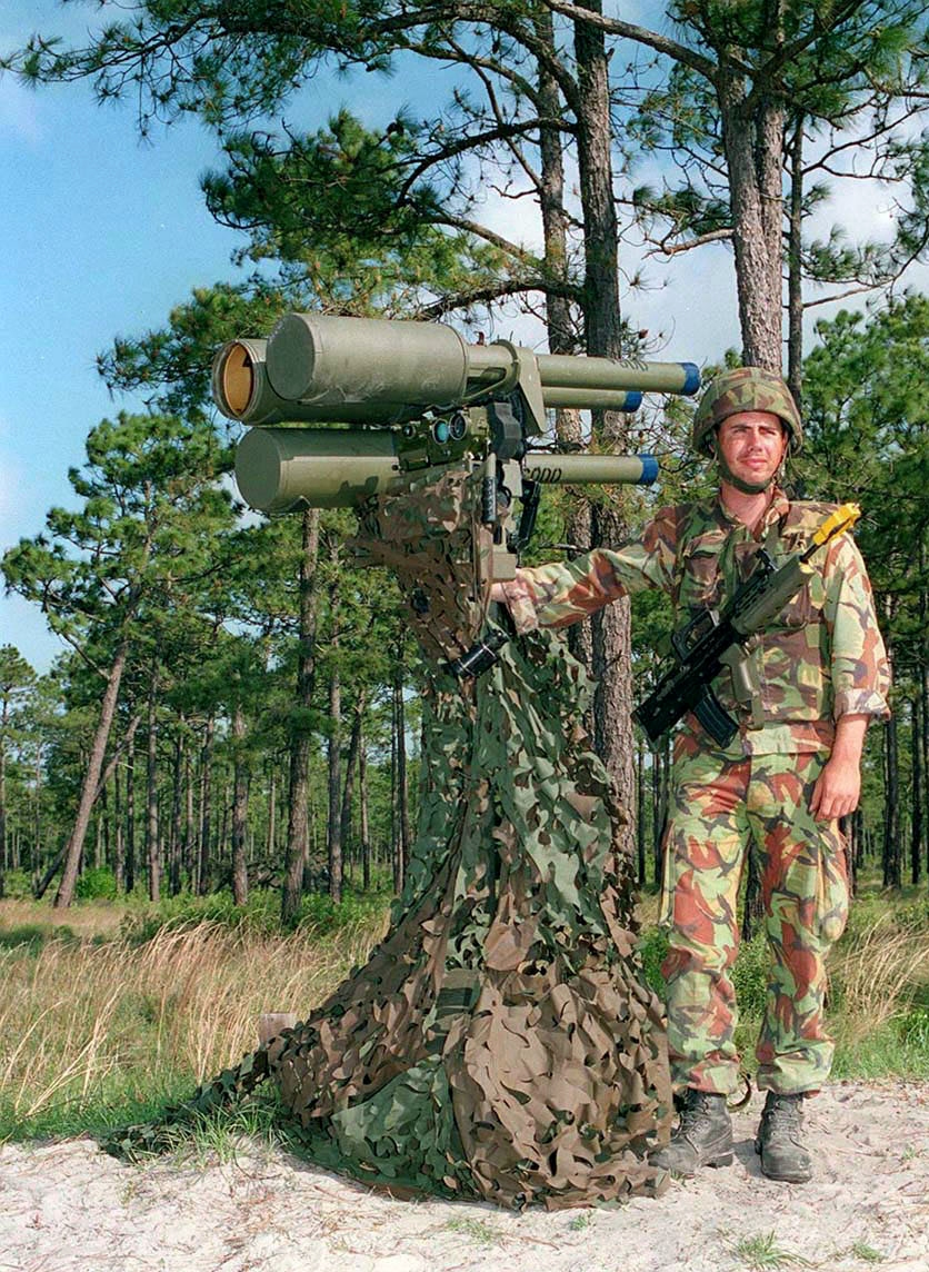 Bombardier Simon Orchard, 20 CDO Battery, G Troop, with his Javelin optically guided close air defense system, on the perimeter of the 3 CDO Brigade Headquarters.